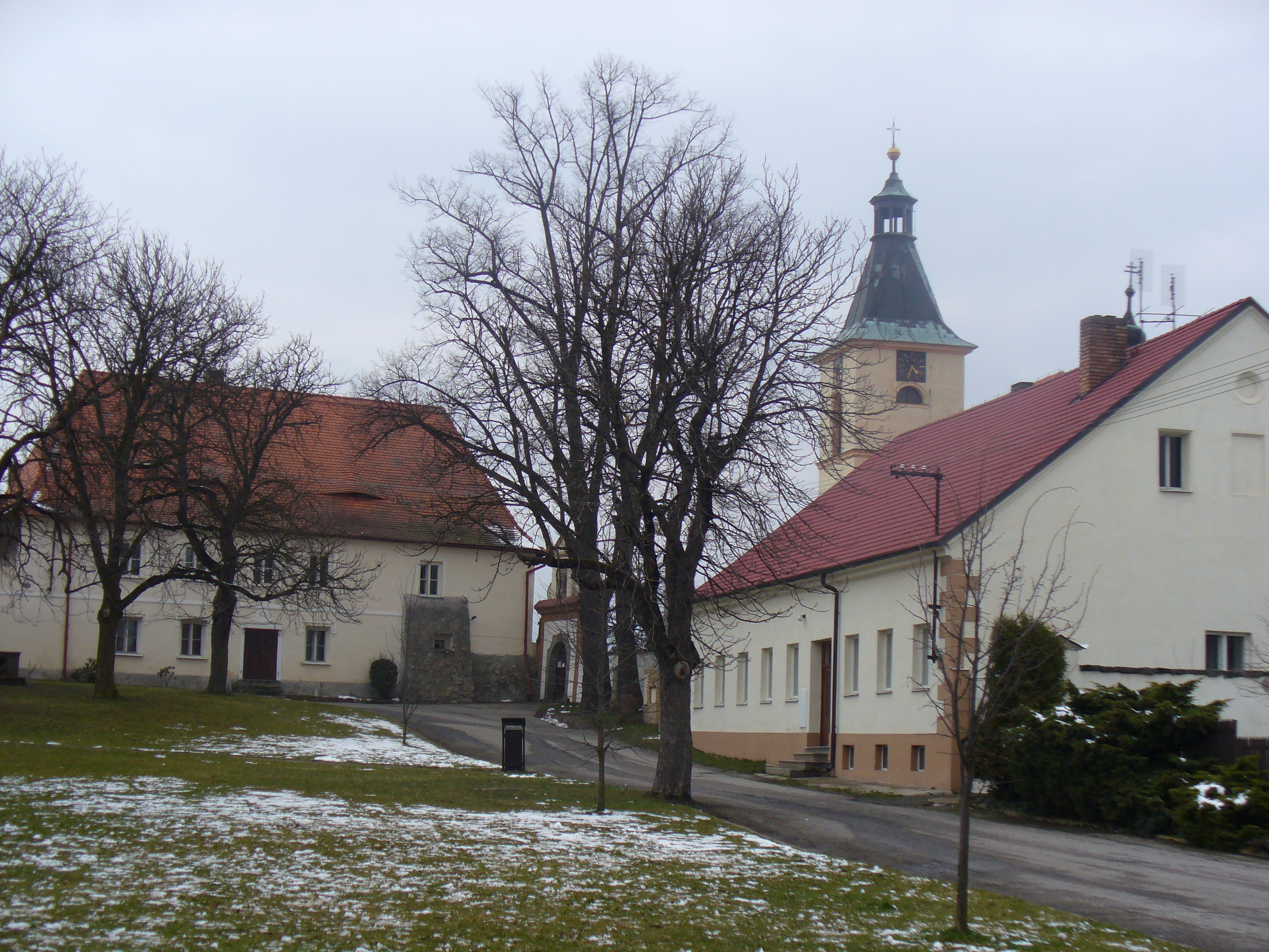 Square in Kovářov, at the back is church of All Saints